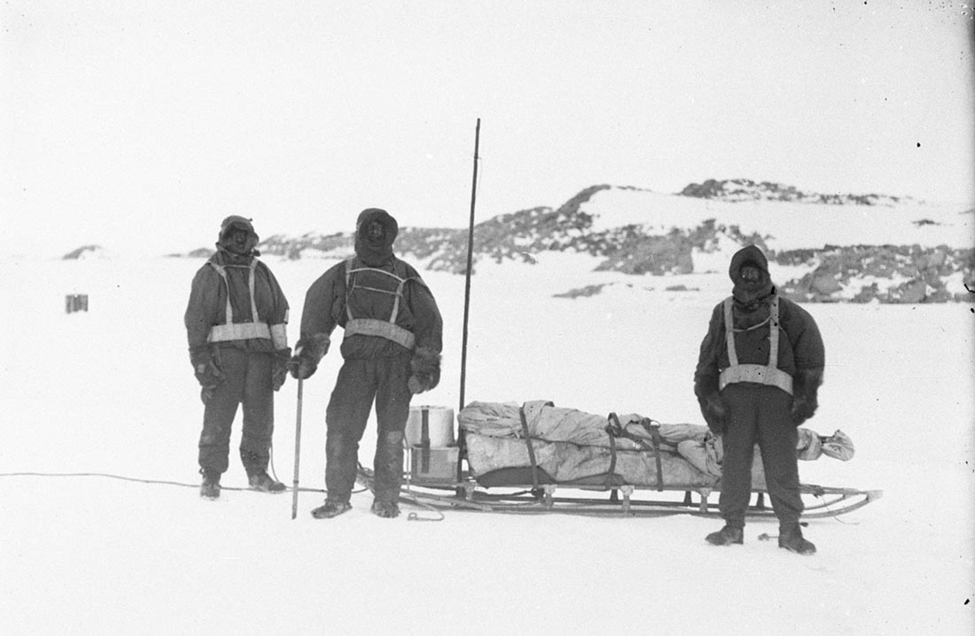 Cecil Madigan, John Close and Leslie Whetter, after their western survey party during the Australasian Antarctic Expedition.